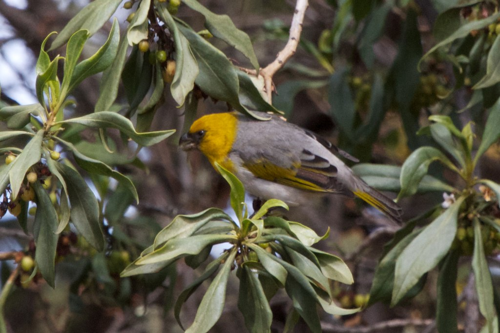 Palila on branch, Hawaii, USA.